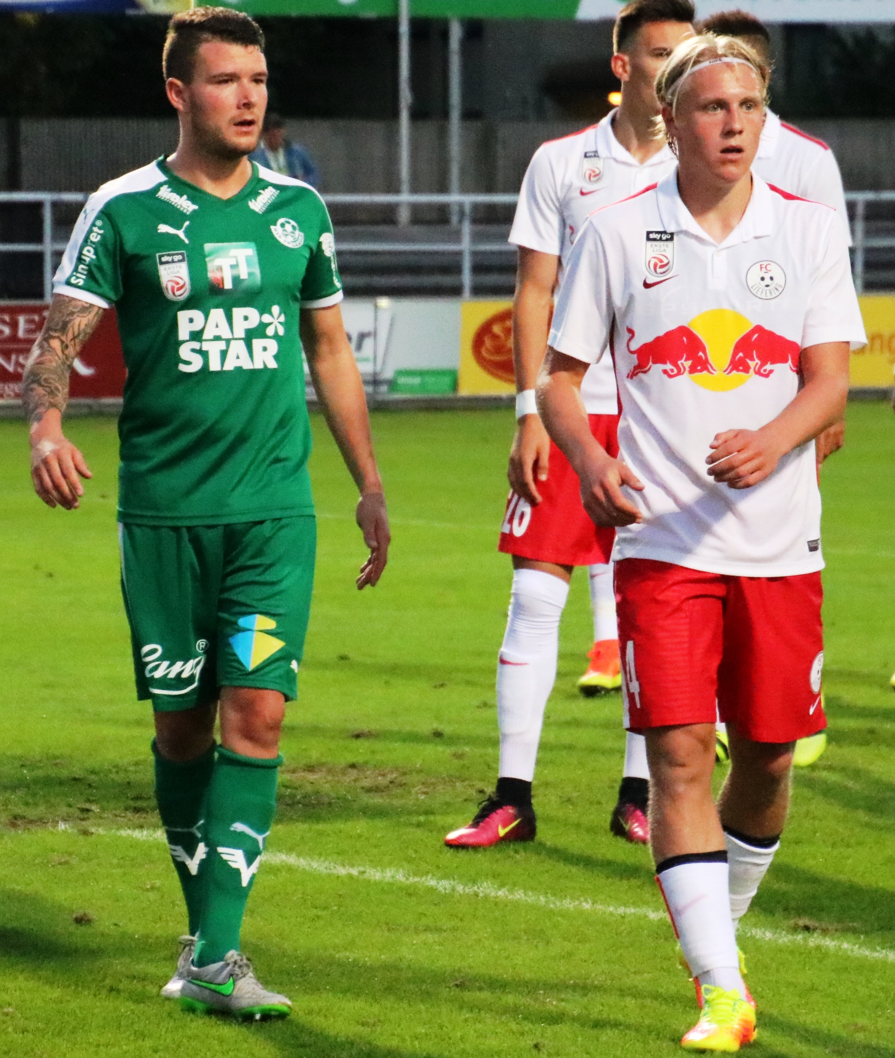 league match Austria 2nd league